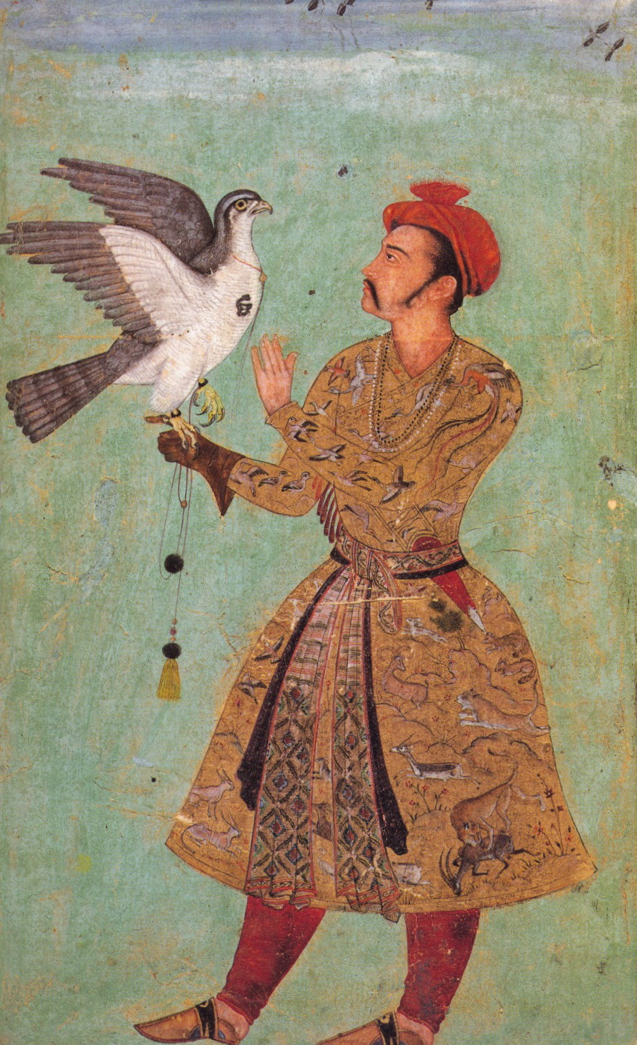 Indian miniature, Akbar period